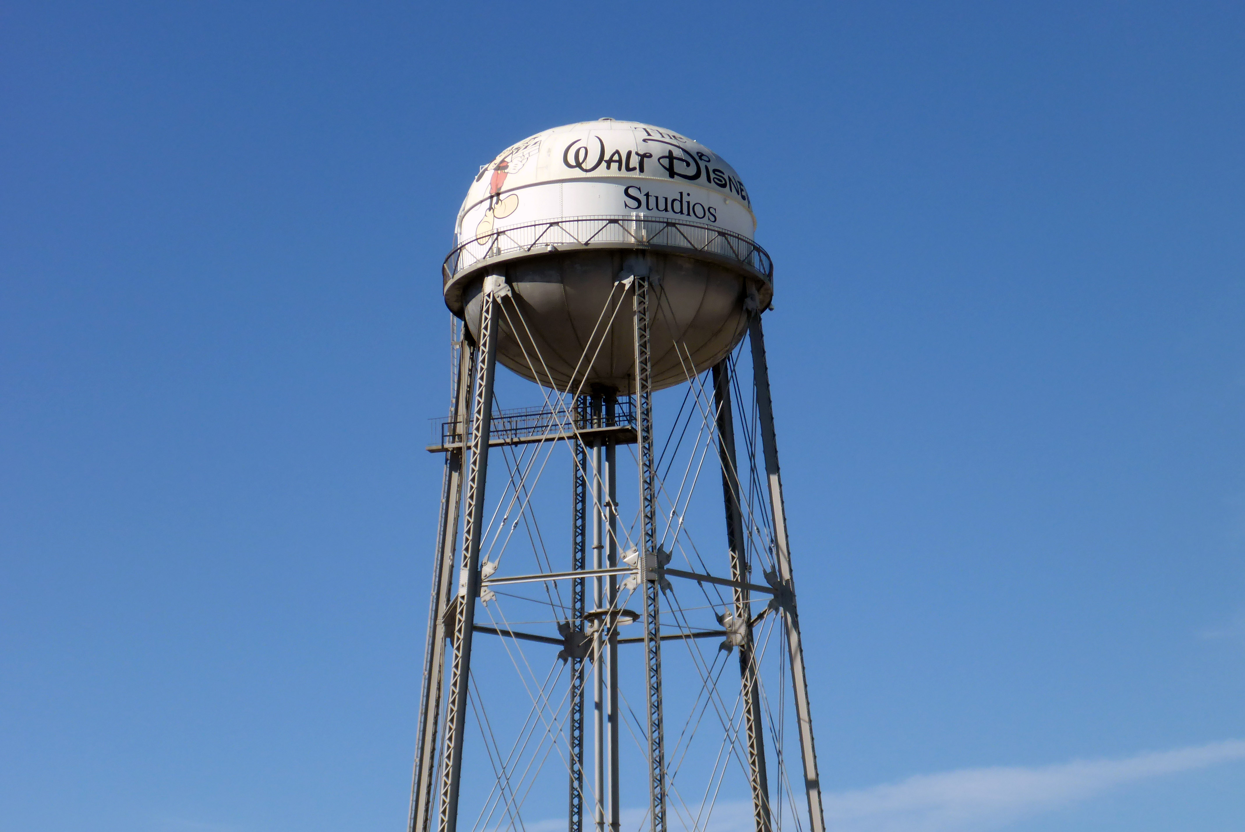 The studio water tower at the Walt Disney Studios in Burbank, California. Photographed by user Coolcaesar on November 8, 2014.